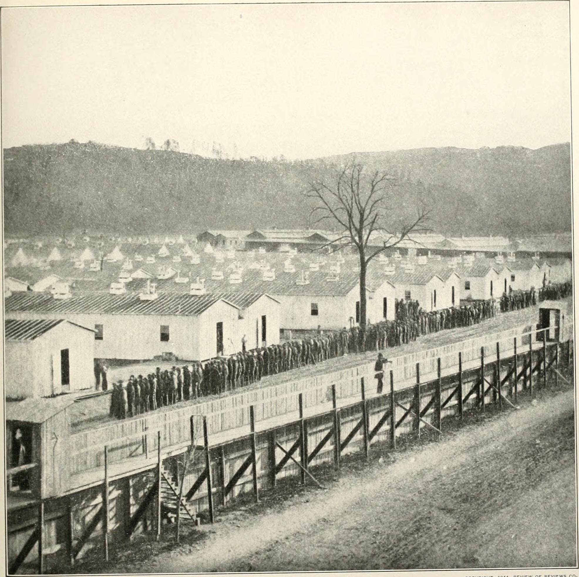 Title: The photographic history of the Civil War : thousands of scenes photographed 1861-65, with text by many special authorities Year: 1911 (1910s) Authors: Miller, Francis Trevelyan, 1877-1959 Lanier, Robert S. (Robert Sampson), 1880- Subjects: United States -- History Civil War, 1861-1865 Pictorial works United States -- History Civil War, 1861-1865 Publisher: New York : Review of Reviews Co. Text Appearing Before Image: ' Text Appearing After Image: COPVRIGMT. 1911, REVIEW OF REVIEWS CO. EVENING ROLI^CALL FOR THE ELMIRA PRISONERS-1864 This pliotofiraph was cherished through half a century by Berry Benson, of the First South Carolina Volun-teer Infantry, ^vho escaped from Elmira by digging a tunnel sixty-six feet long under the tents and stockade.It slunvs the prisoners at evening roll-call for dinner in the winter of 1864. The sergeants in front of theIons line of prisoners are calling the roll. There were both Federal and Confederate sergeants. Elmiraprison contained from the time of its establishment several thousand Confederate prisoners. The barracksin the foreground had been completed only a few days when this picture was made, and up to that timea large number of prisoners had occupied tents. The leaves are gone from the trees, and it is obvious thatthe winter frosts have set in. The tents were unheated. and the inmates suffered severely from the cold.The sentry in the foreground is not paying strict attention to the prison